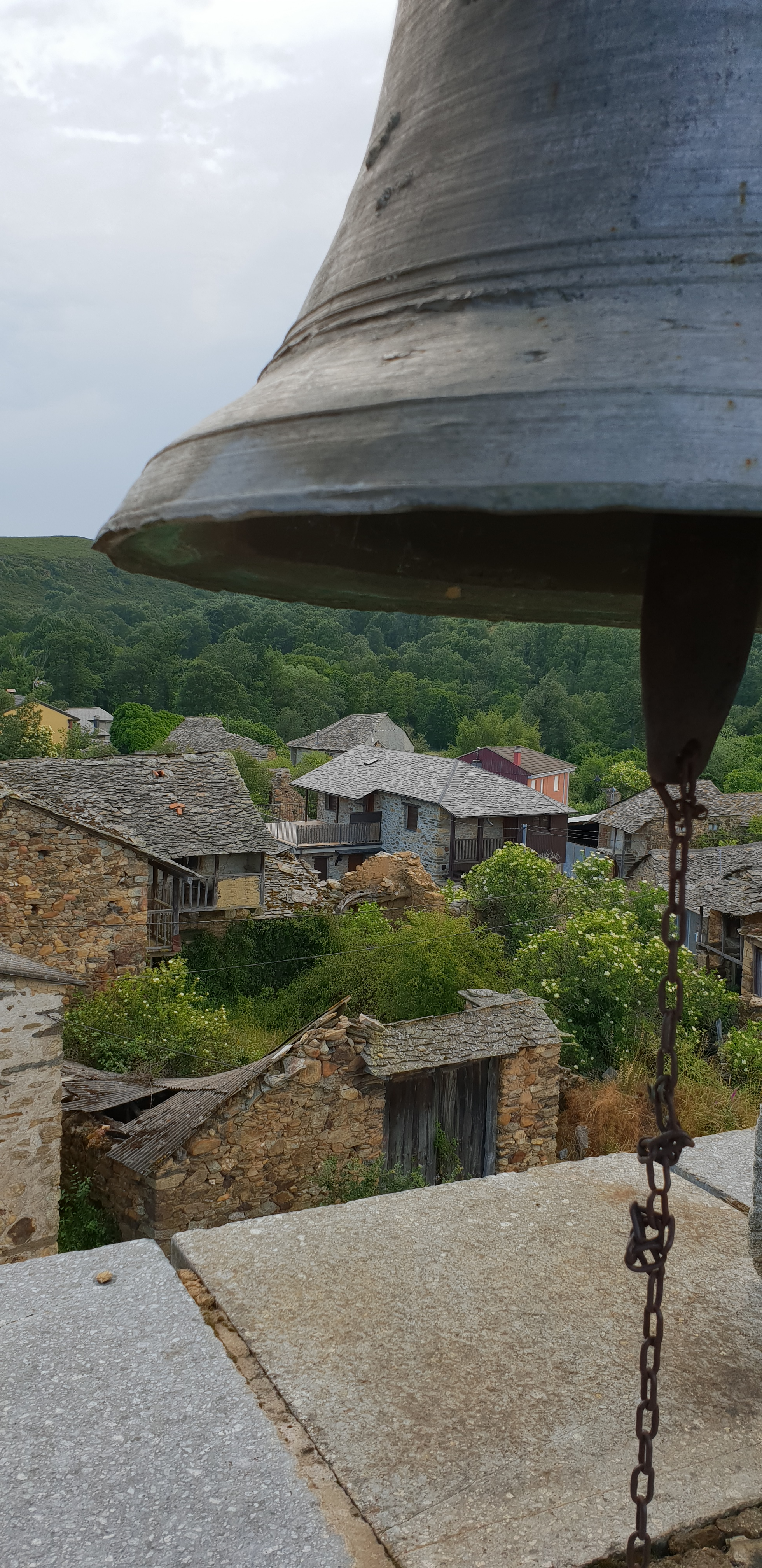 Desde el campanario de Valdavido